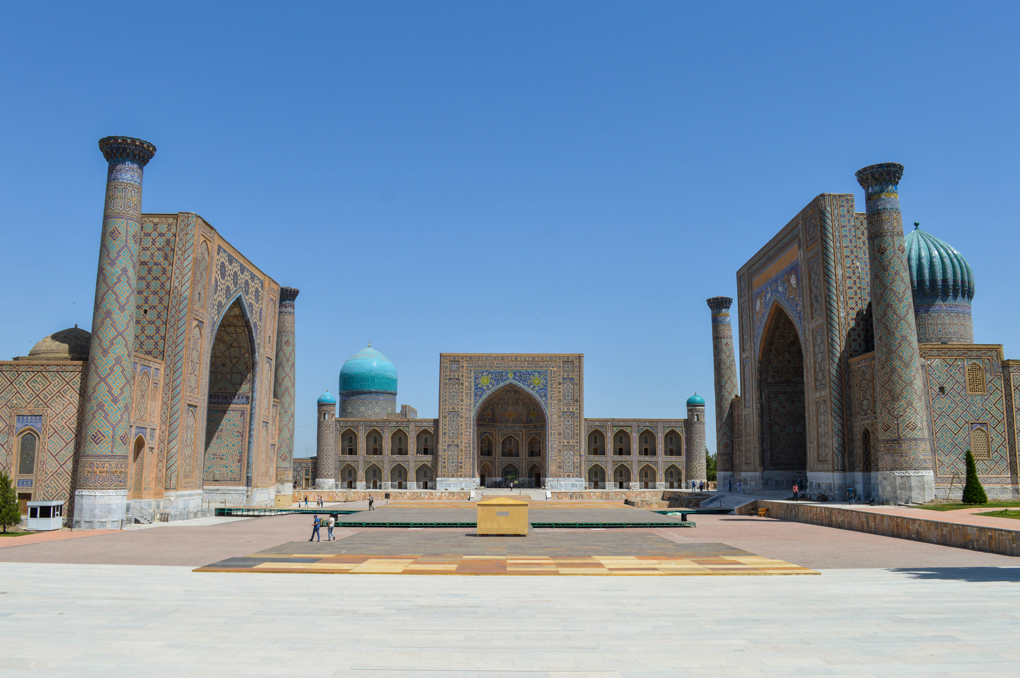 500px provided description: The Registan Ensemble [#sky ,#city ,#travel ,#religion ,#old ,#tourism ,#architecture ,#building ,#monument ,#ancient ,#outdoors ,#landmark ,#no person]